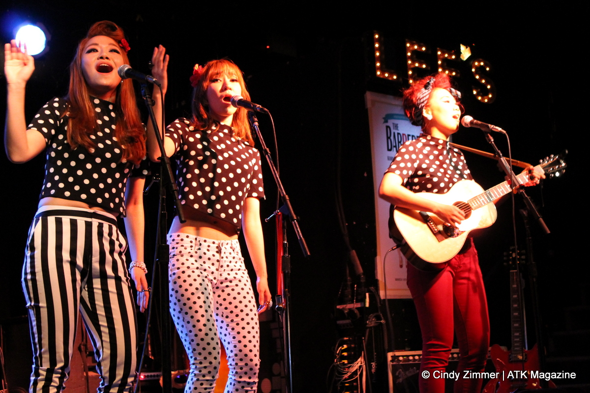 The Barberettes in Toronto (106), (Left - Right) Grace Kim, Sohee Park, Shinae An Wheeler.